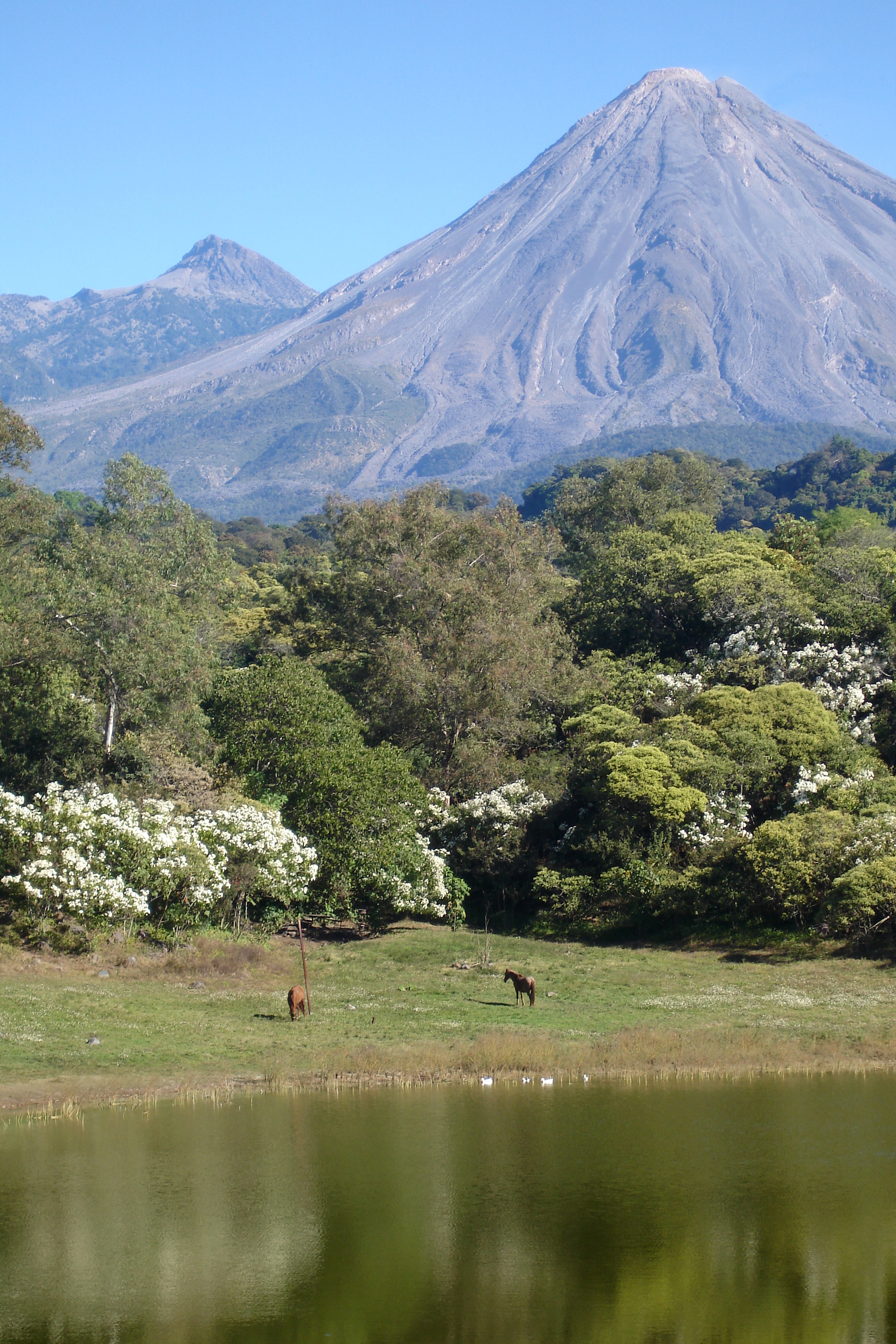 Colima Volcanoes seen from Carrizalillos Lagoon in Colima, Mexico